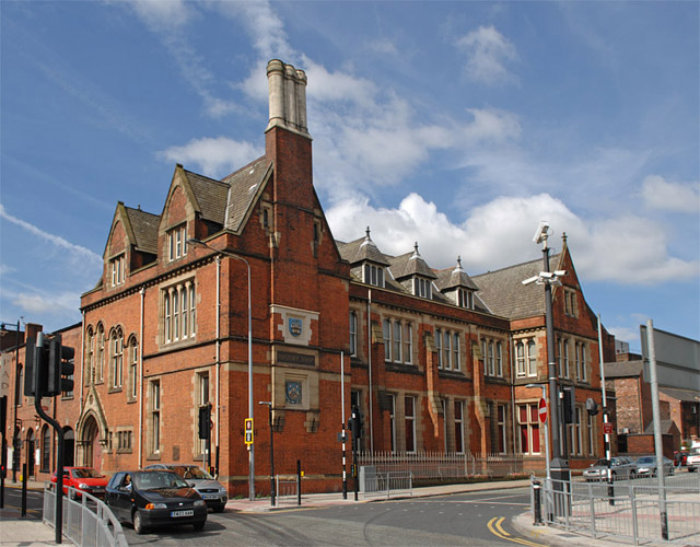 The History Shop - formerly Wigan Library